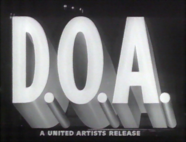 Cropped screenshot of the main title from the film D.O.A. (1950).